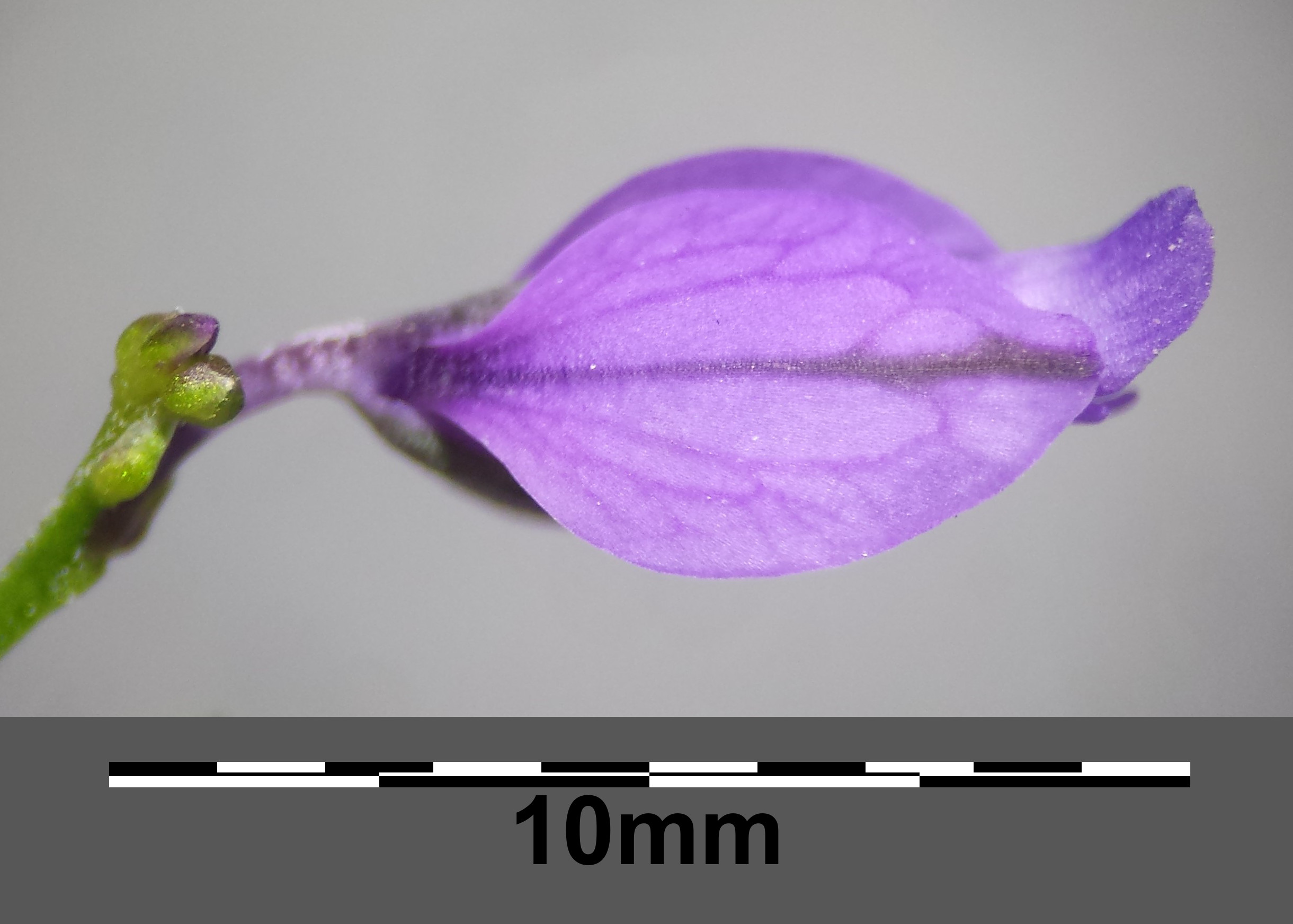 Flower Taxonym: Polygala vulgaris subsp. vulgaris ss Fischer et al. EfÖLS 2008 ISBN 978-3-85474-187-9 Location: nearby Riebeis, Rappottenstein, district Zwettl, Lower Austria - ca. 750 m a.s.l. Habitat: wayside